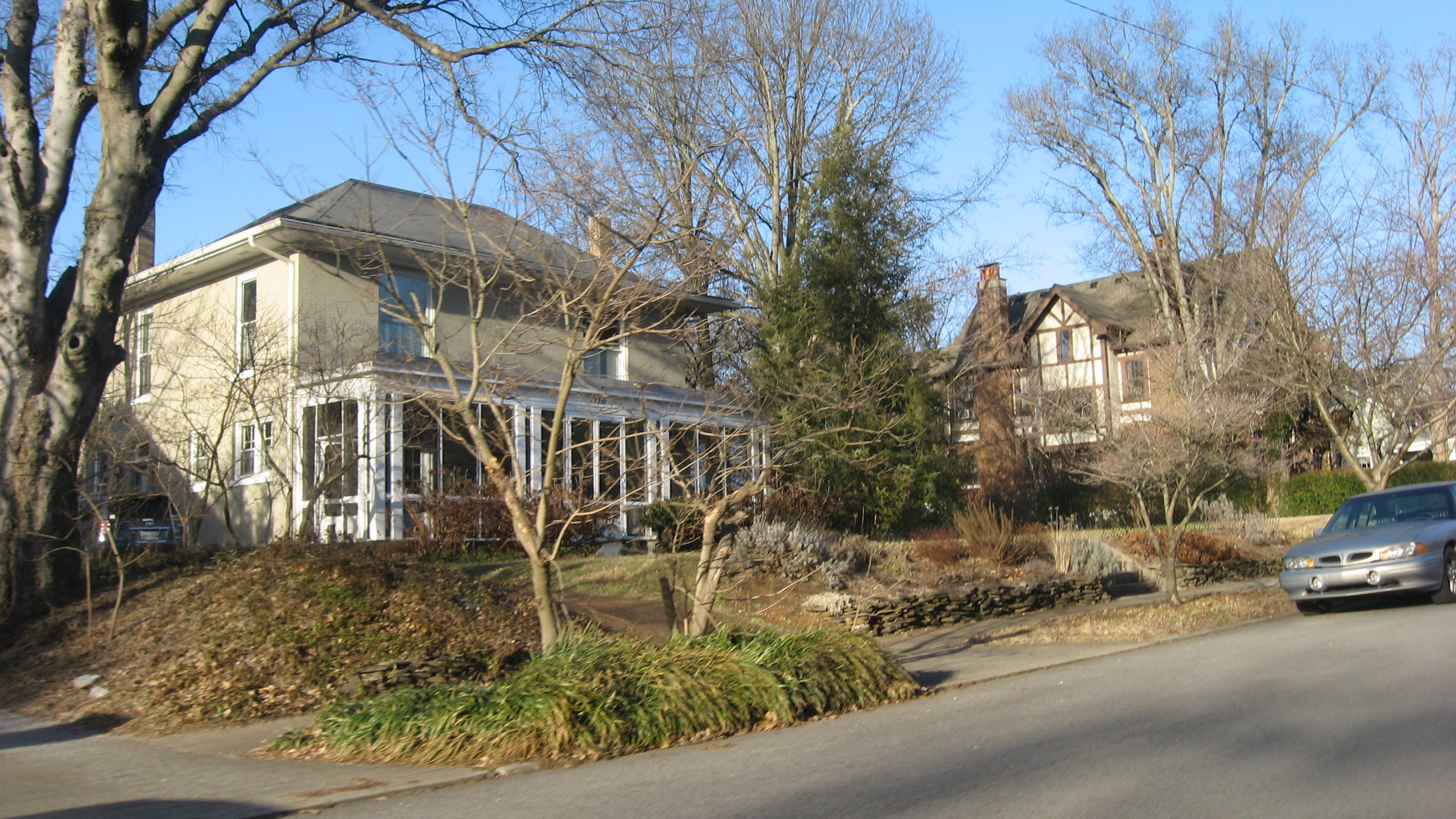 Houses on the northern side of Central Avenue just west of the Craighead Avenue intersection in Nashville, Tennessee, United States. This block is part of the Richland-West End Historic District, a historic district that is listed on the National Register of Historic Places.